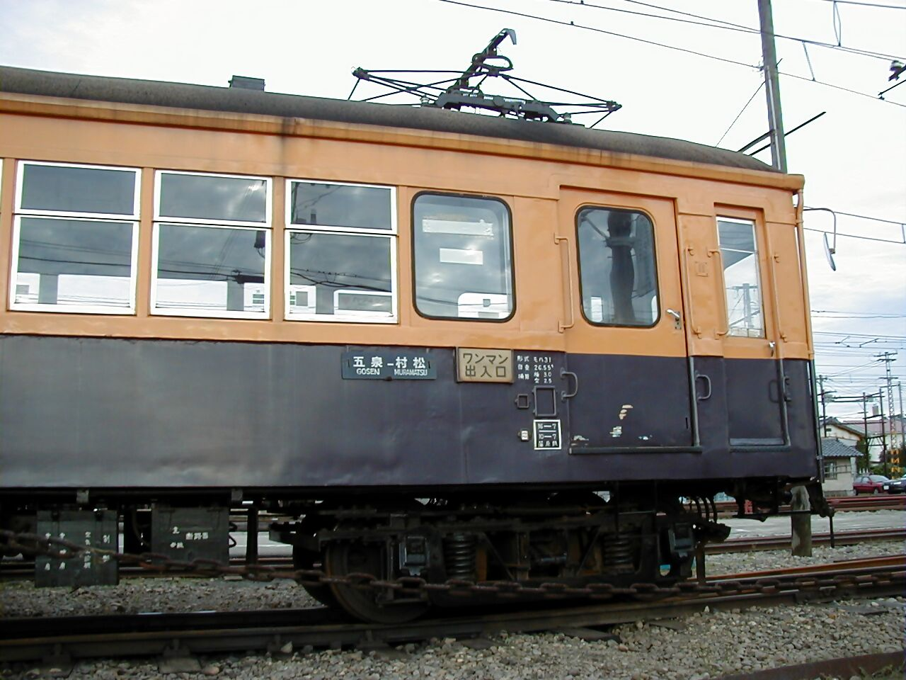 An EMU car on the Kambara Railway in Japan